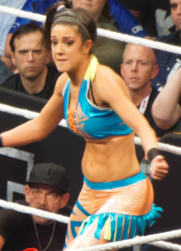 Bayley during the NXT Takeover: Dallas event in April 1, 2016.